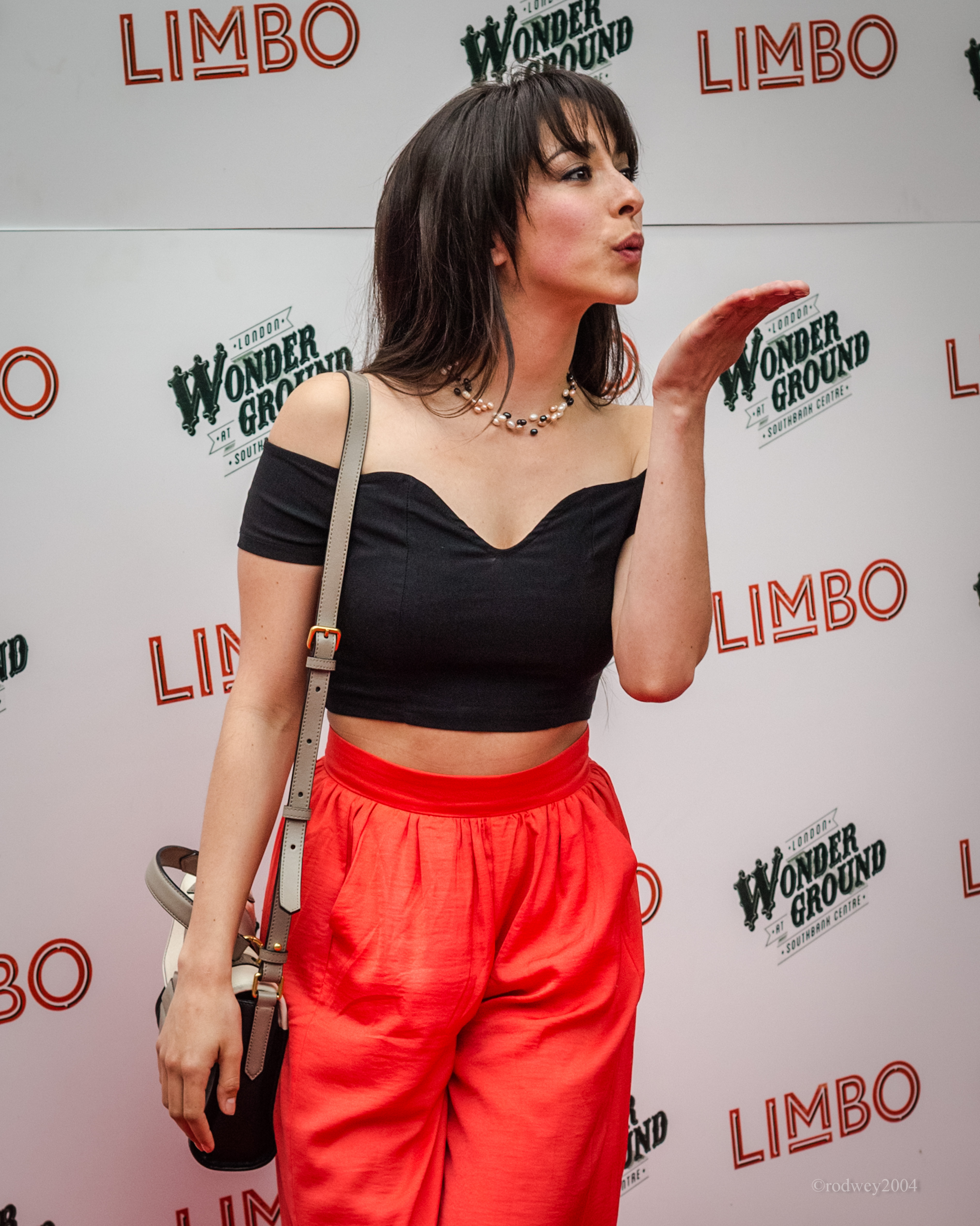 Oona Chaplin HC9Q3223-1